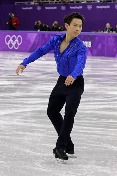 Denis Ten at the 2018 Winter Olympics